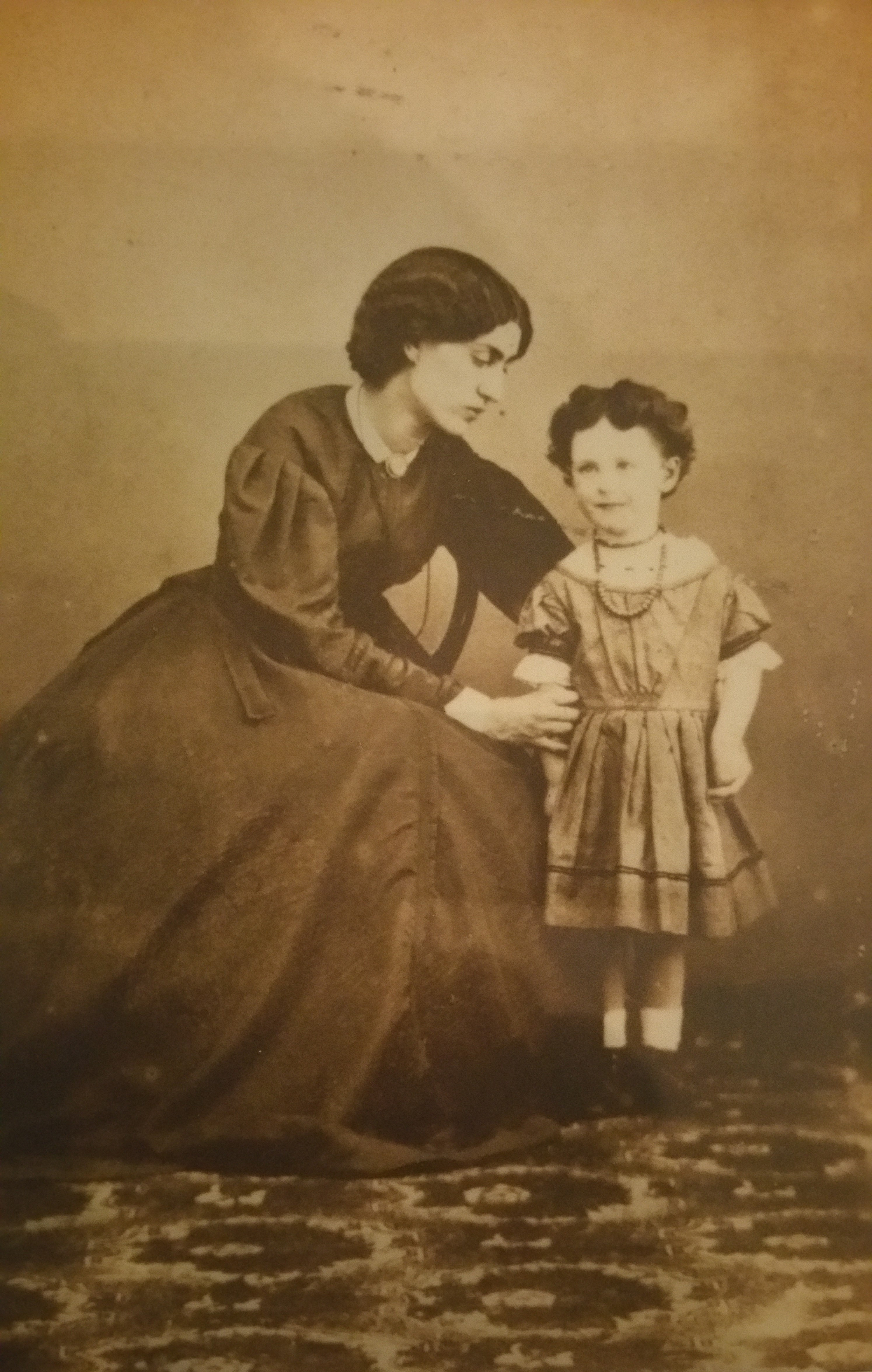 Jane Morris and Jenny Morris (their eldest daughter) circa 1864, photographed by H. Smith at Bexleyheath. Hangs at the William Morris Gallery, London.